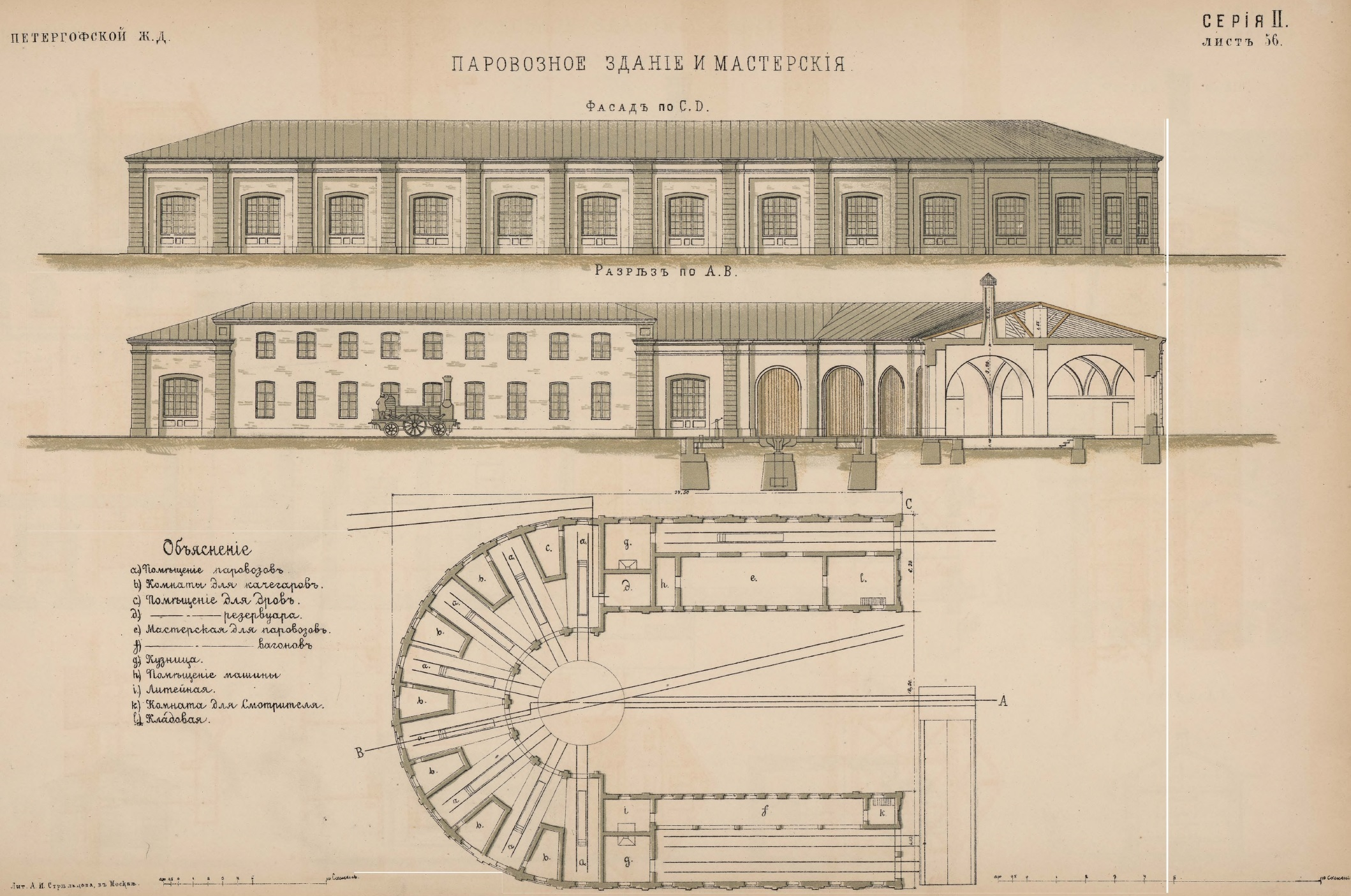 Railway depot. Peterhof railway. Russian Empire